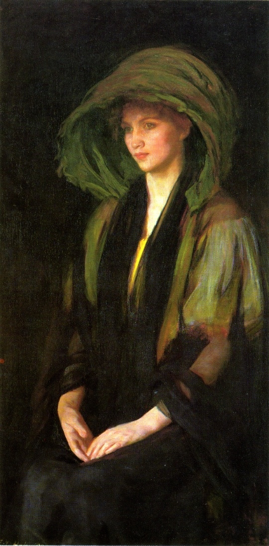 The Green Calash